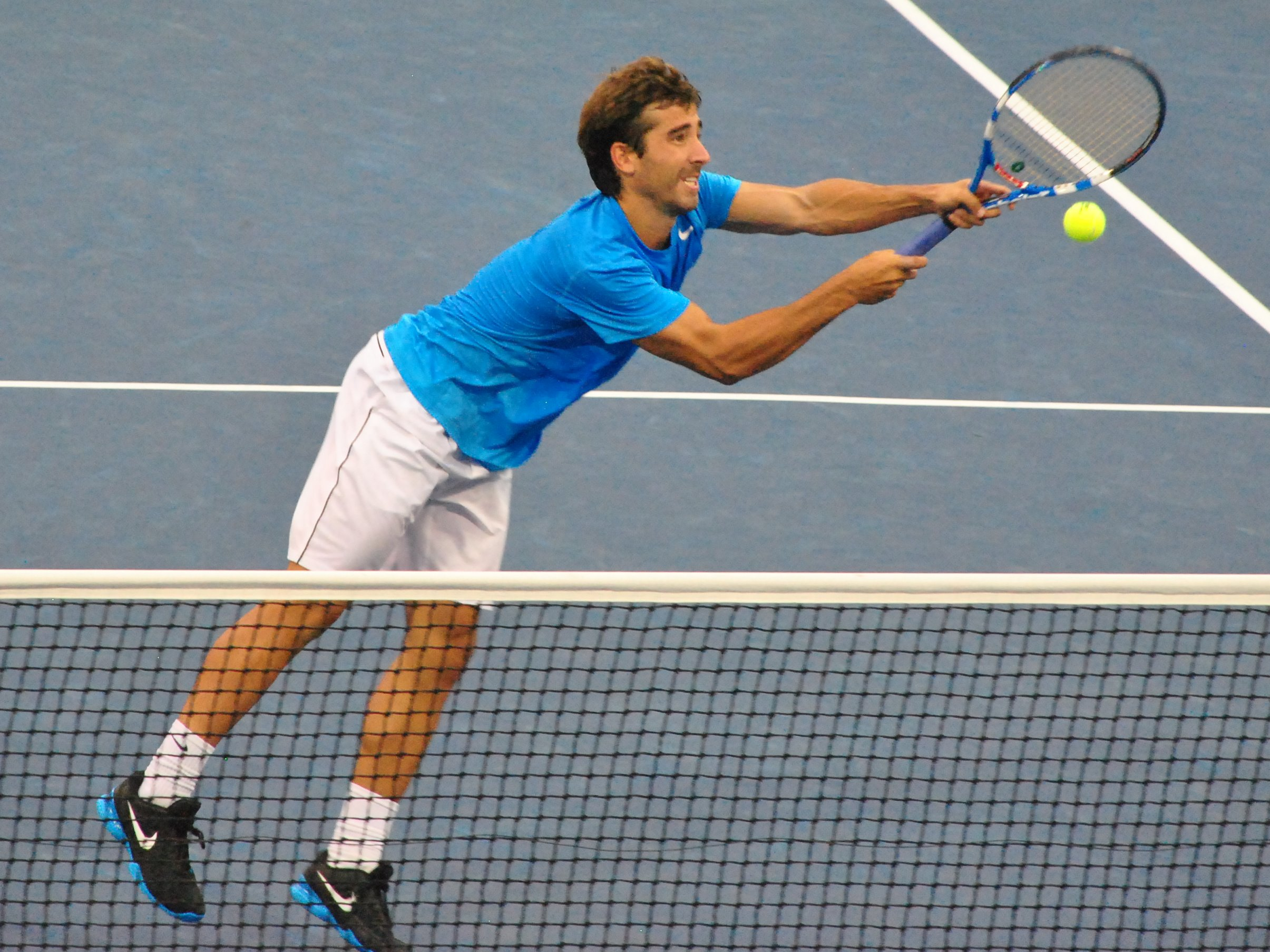 Marc López at the US Open 2012